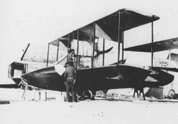 A Curtiss C-3 was the first plane of the United States Marine Corps, photographed at Culebra, Puerto Rico, in 1913.